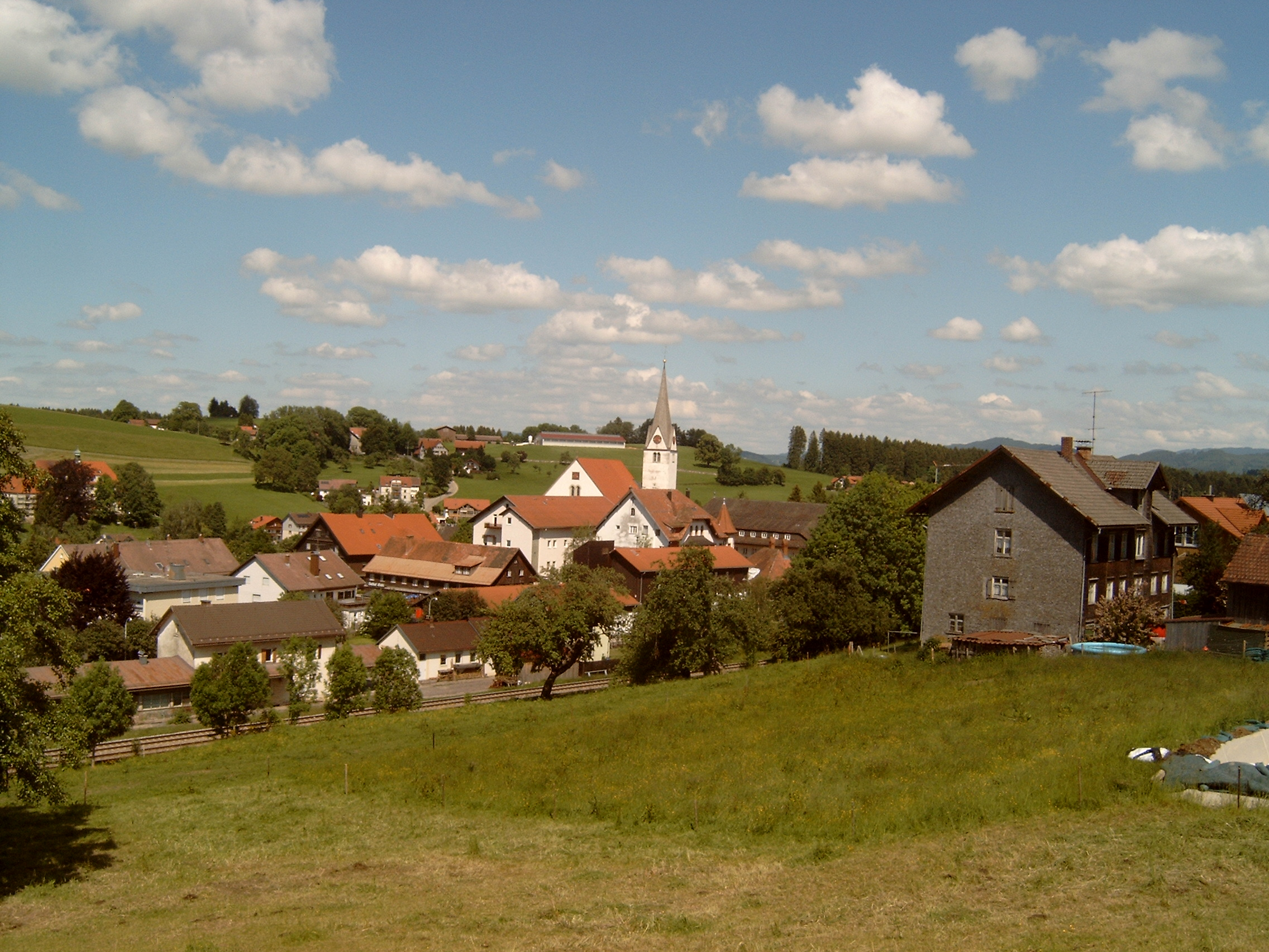 Heimenkirch, view to the village